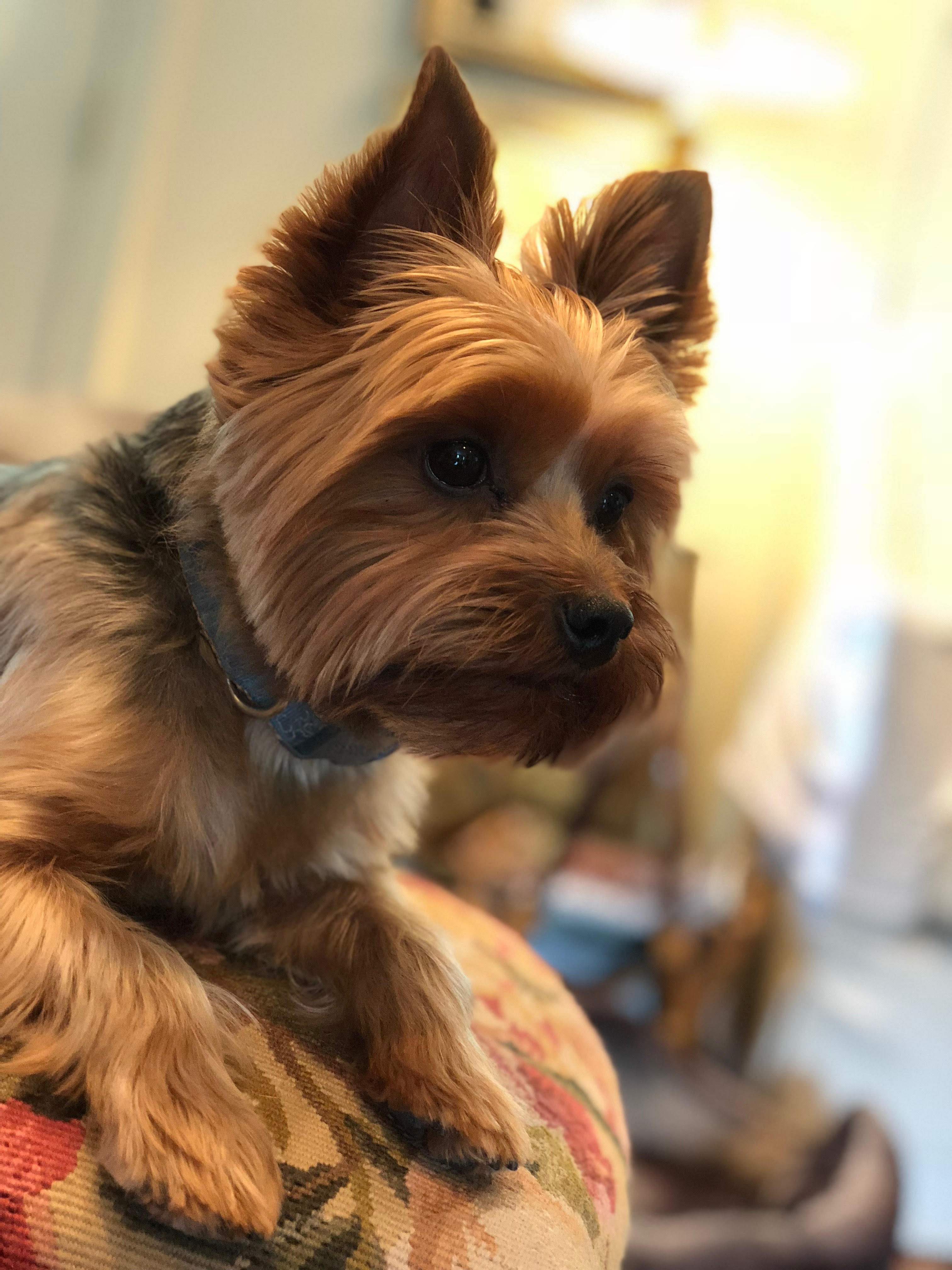 The dog is looking off into the distance as if to say that they are conveying an important air